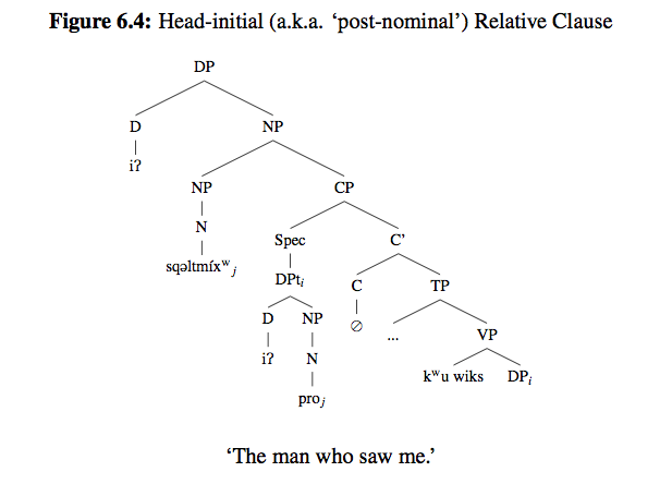 Trees